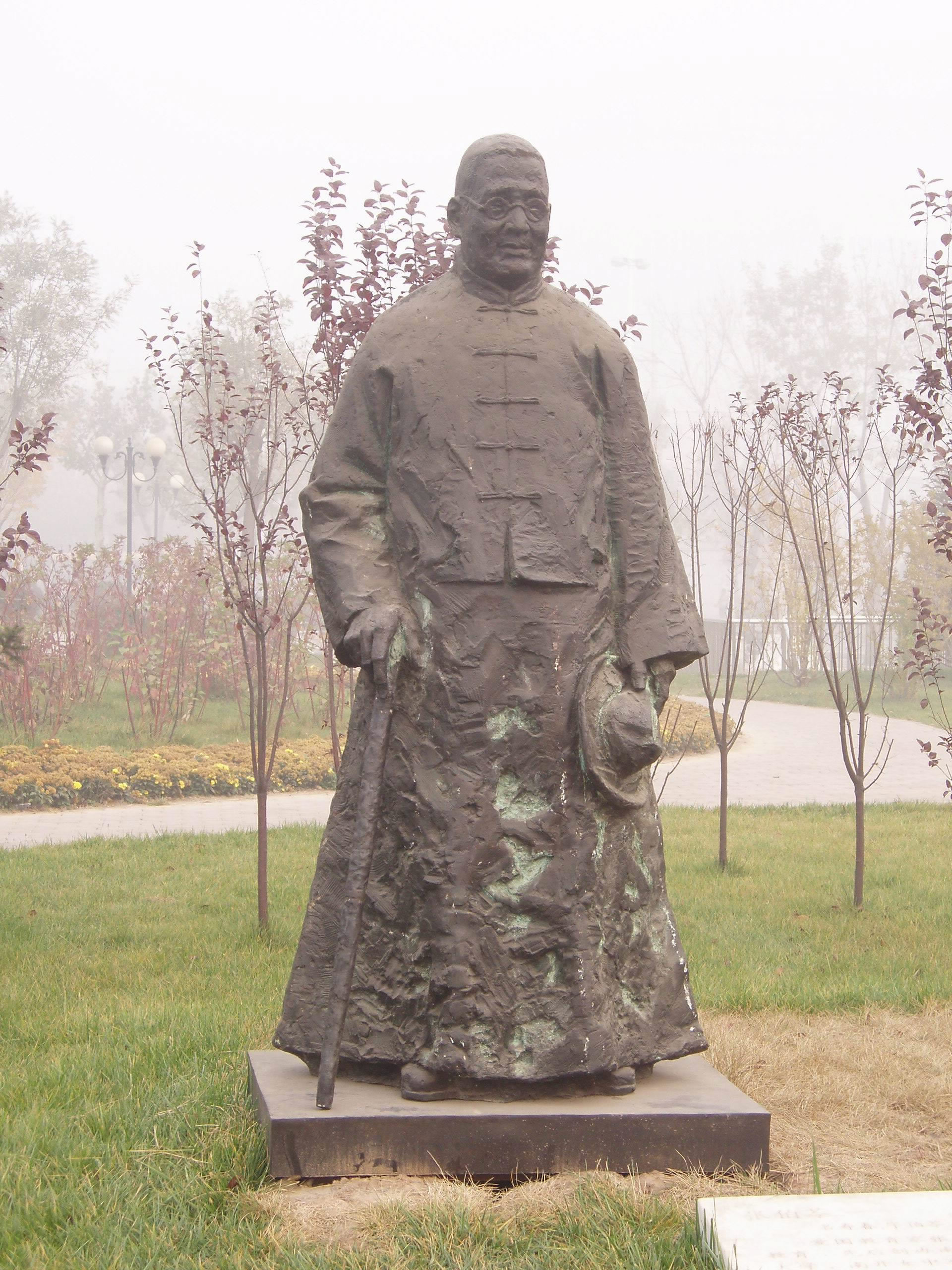 The statue of Zhang Buoling in Nan Kai school in Tianjin, China